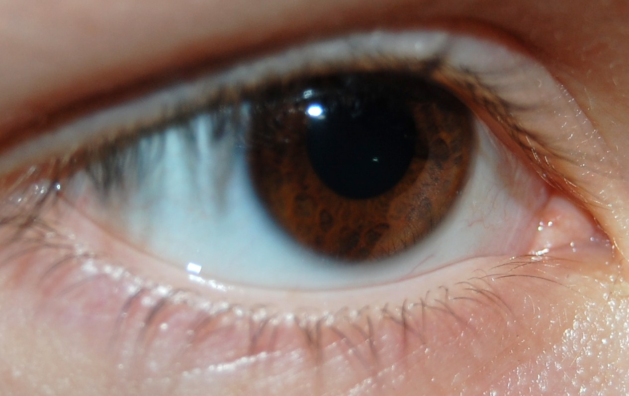 Brown eyes on a Swede.